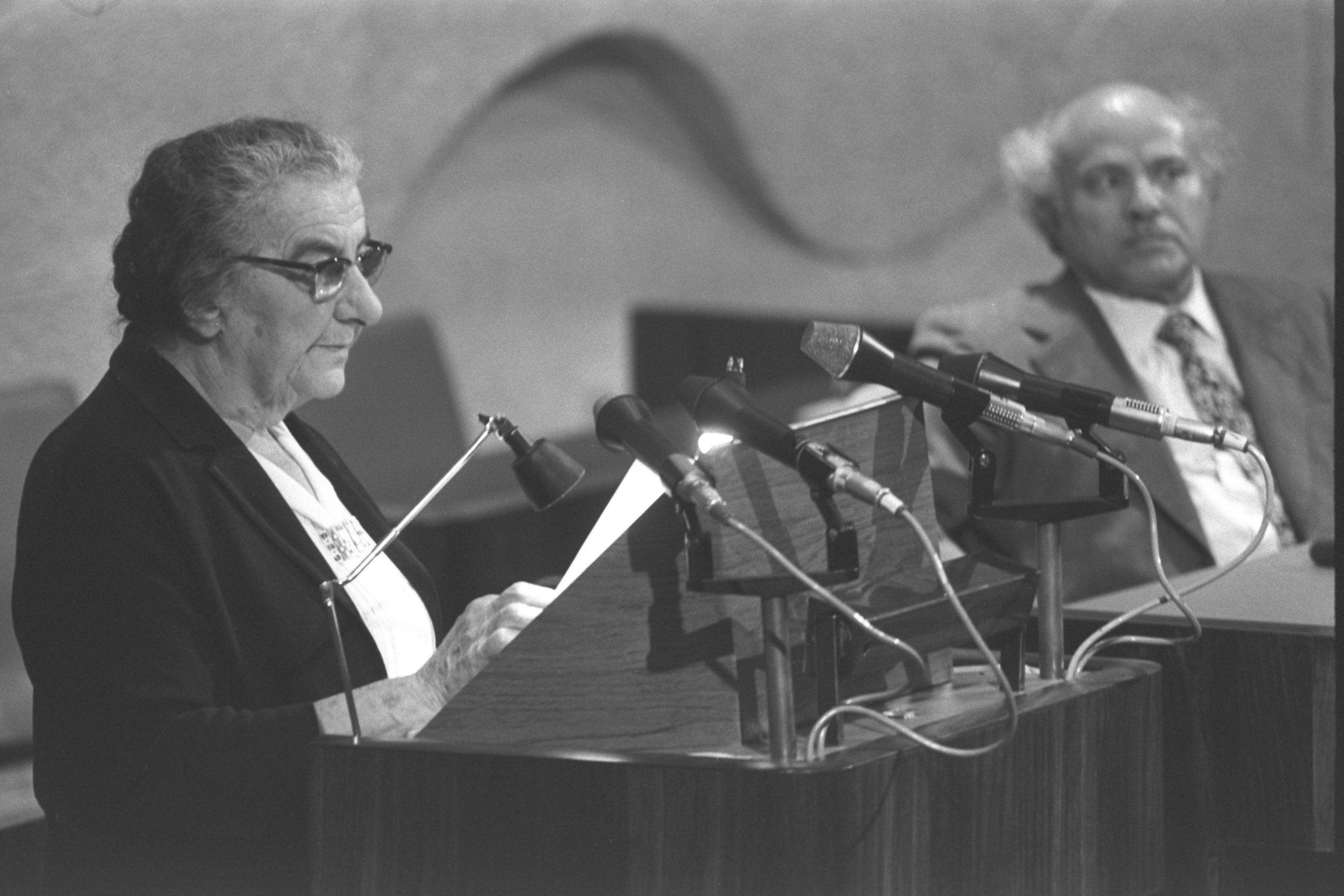 P.M. Golda Meir introducting the new cabinet to the Knesset (10/03/1974). ראש הממשלה גולדה מאיר מציגה את הממשלה החדשה במליאת הכנסת, בירושלים. Photo: Moshe Milner (1946–) Alternative names Miylner, Moše; Milner, Mosheh; Moshé Milner; Milner, M.; Mîlner, Moše; Miylner, MošehDescriptionIsraeli photographerצלם ישראליDate of birth 1946 Location of birth Germany Authority control : Q28750411 VIAF: 100999744 ISNI: 0000 0001 0804 0507 LCCN: n82072104 GND: 115699732 BNF: 15548788n WorldCat creator QS:P170,Q28750411 .